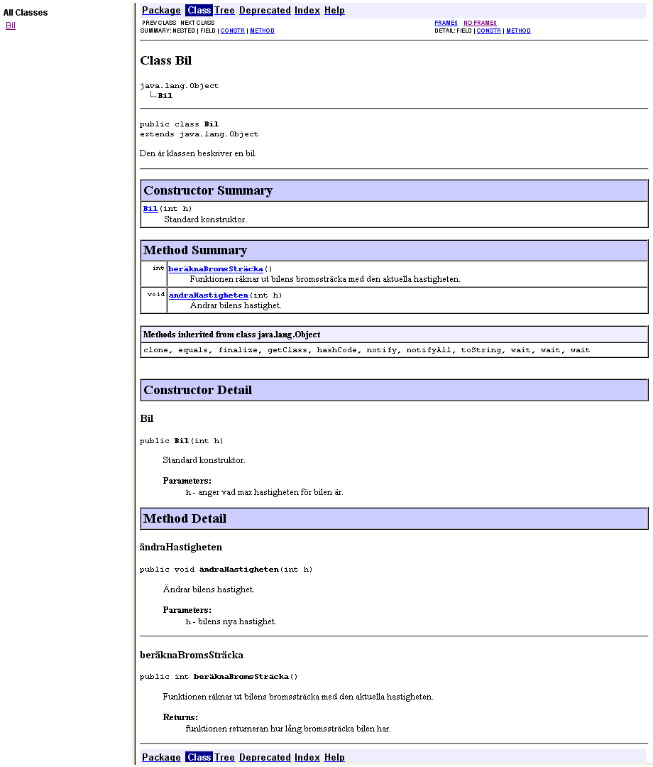 An example of what you can create with javadoc